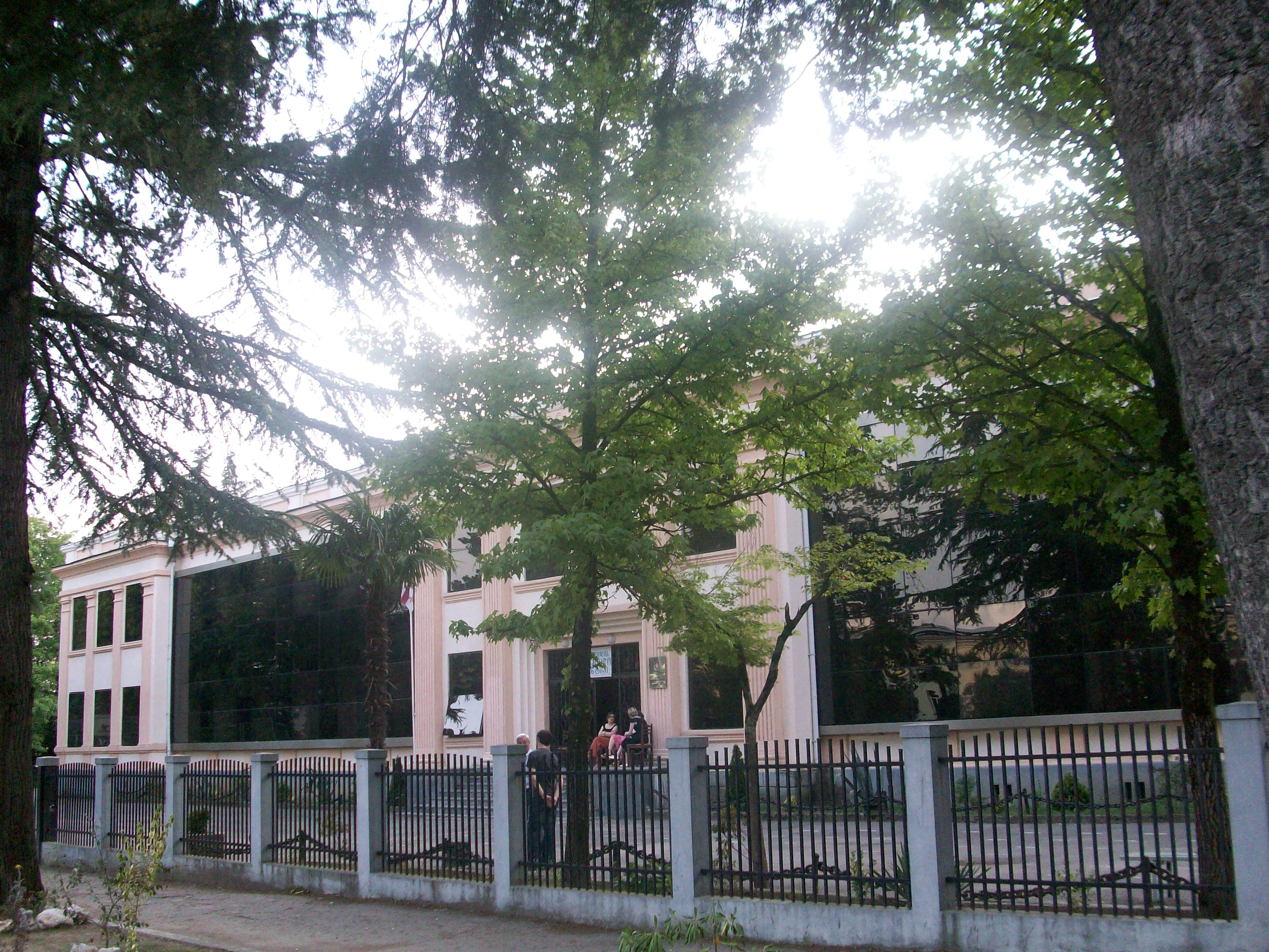 Second public school in zugdidi